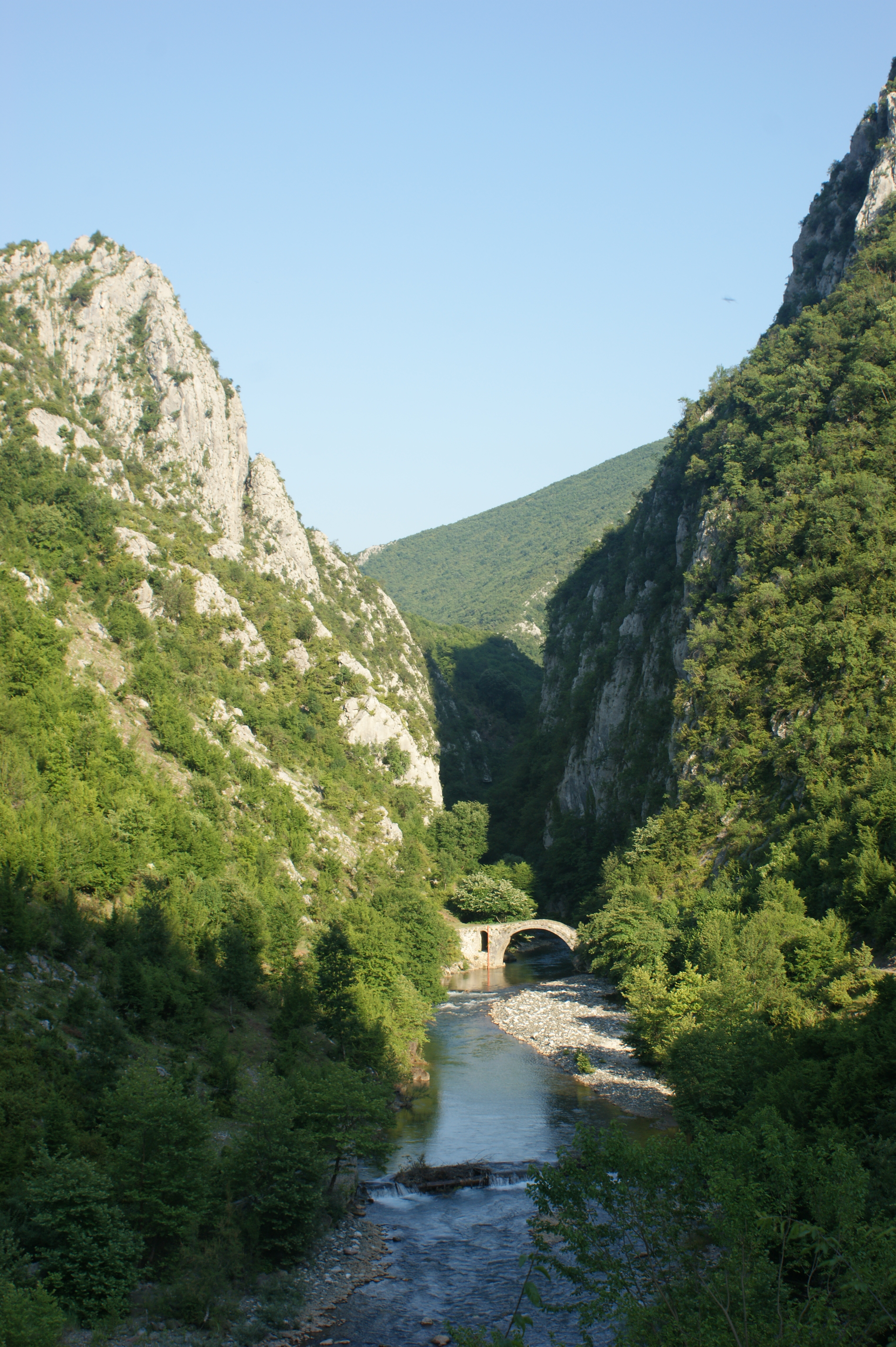 Ura e Vashës, old bridge on the Rruga e Arbërit in the South of Mat, Central Albania